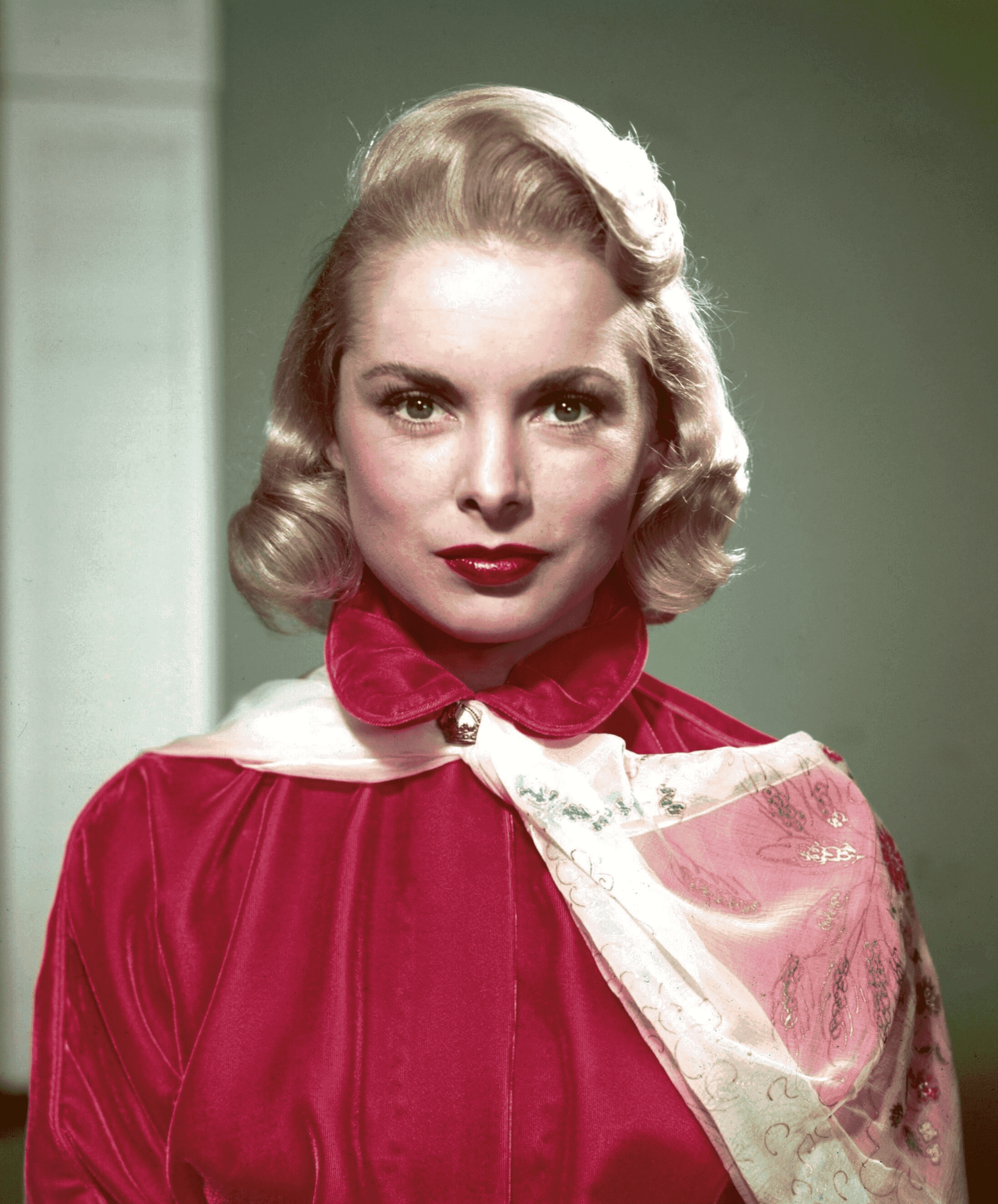 Janet Leigh in Photoplay (1954)